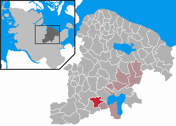 This map shows the area of the Gemeinde (municipality) Kalübbe in the Kreis (district) Plön, Schleswig-Holstein, Germany.